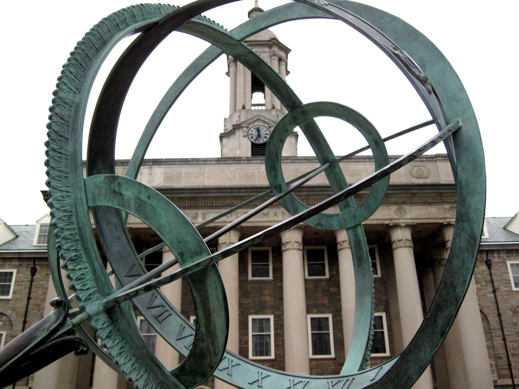 Penn State University- a lovely campus even on a grey rainy day.